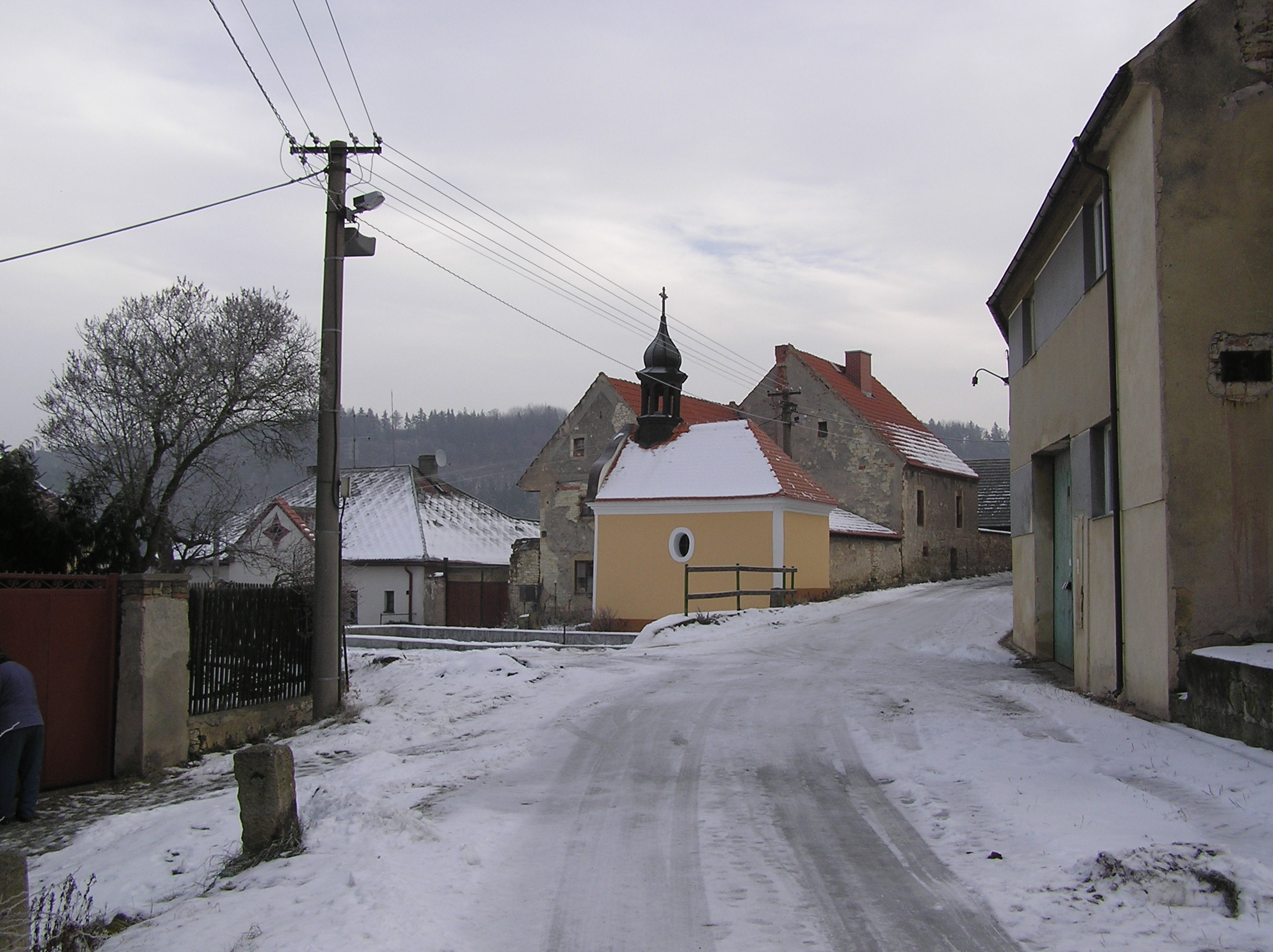 Village square in Břínkov